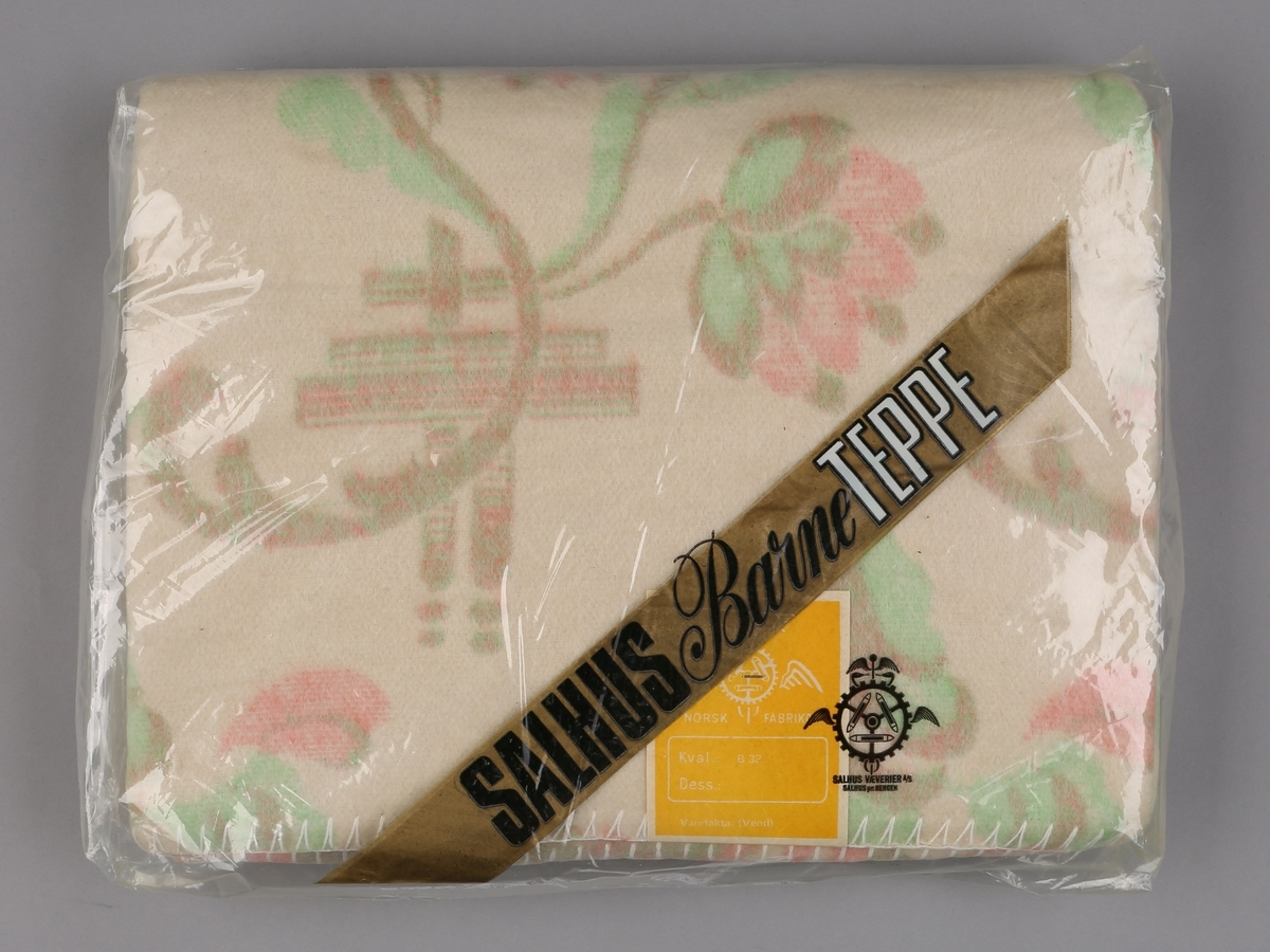 Ullteppe produsert ved Salhus Væverier, Noreg (NTMT.02754, Norsk Trikotasjemuseum).